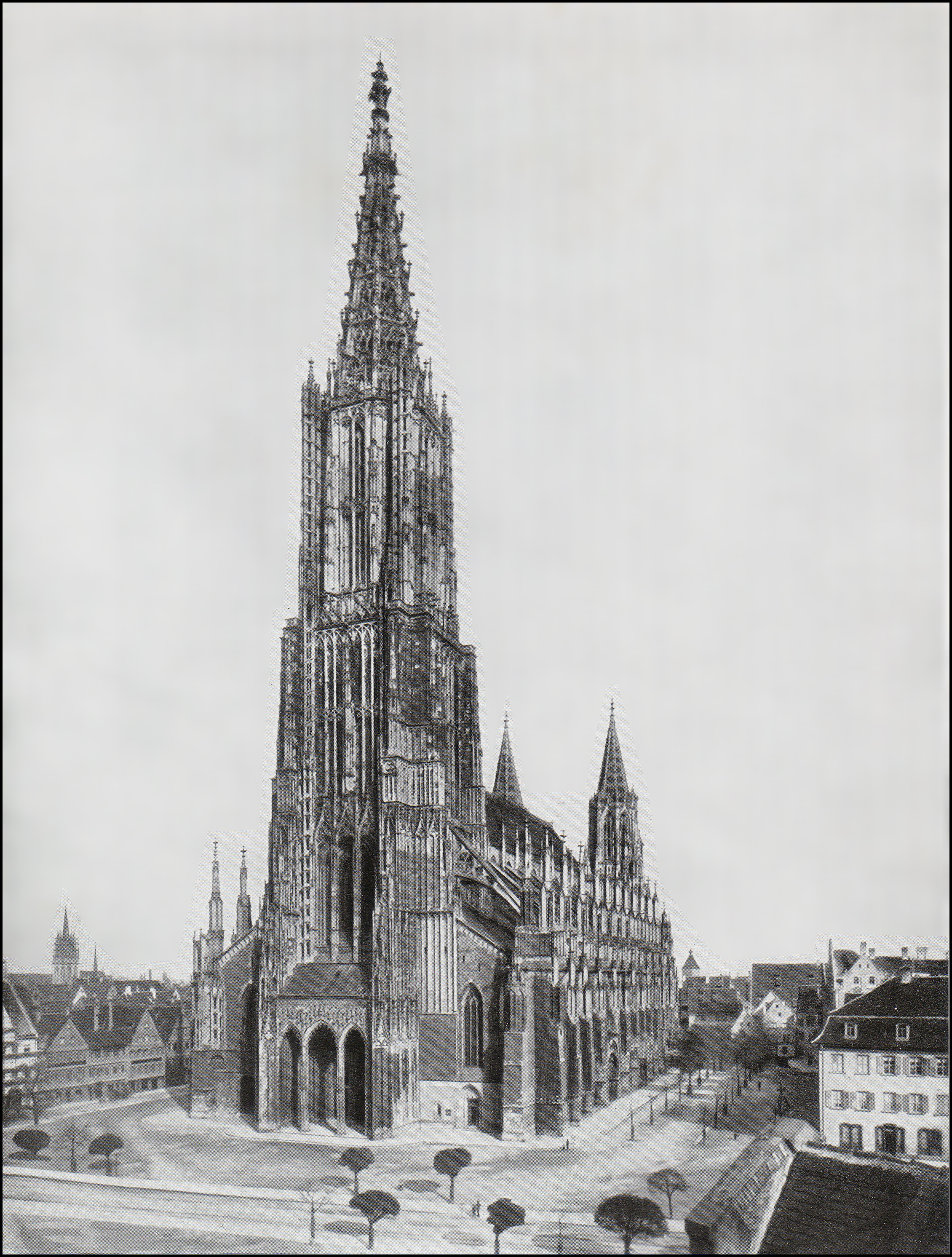 Ulm Minster, a Gothic churc in Germany with 161 meters tall spire, photo from 1910